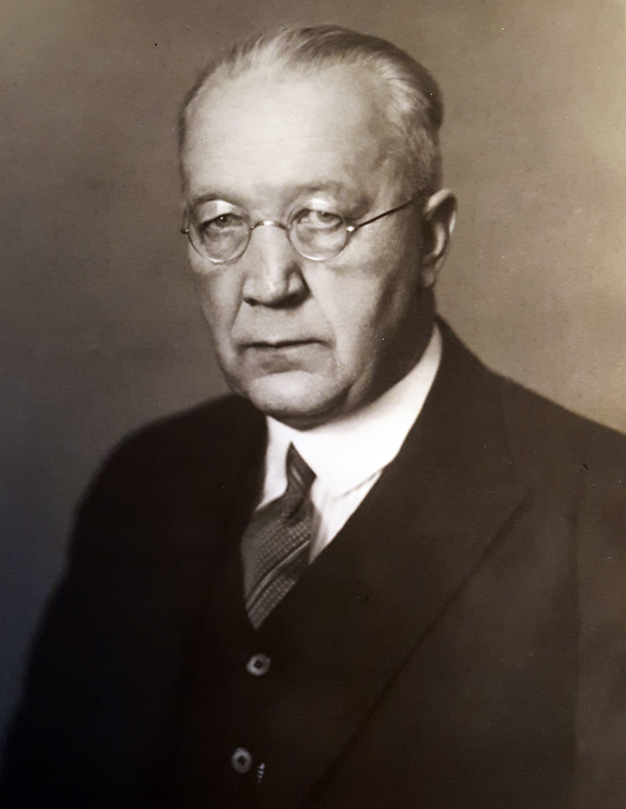 Prof. Hellmuth Ulrici MD, Medical Director of the Clinic for pulmonal diseases and tuberculosis in Sommerfeld nearby Kremmen.